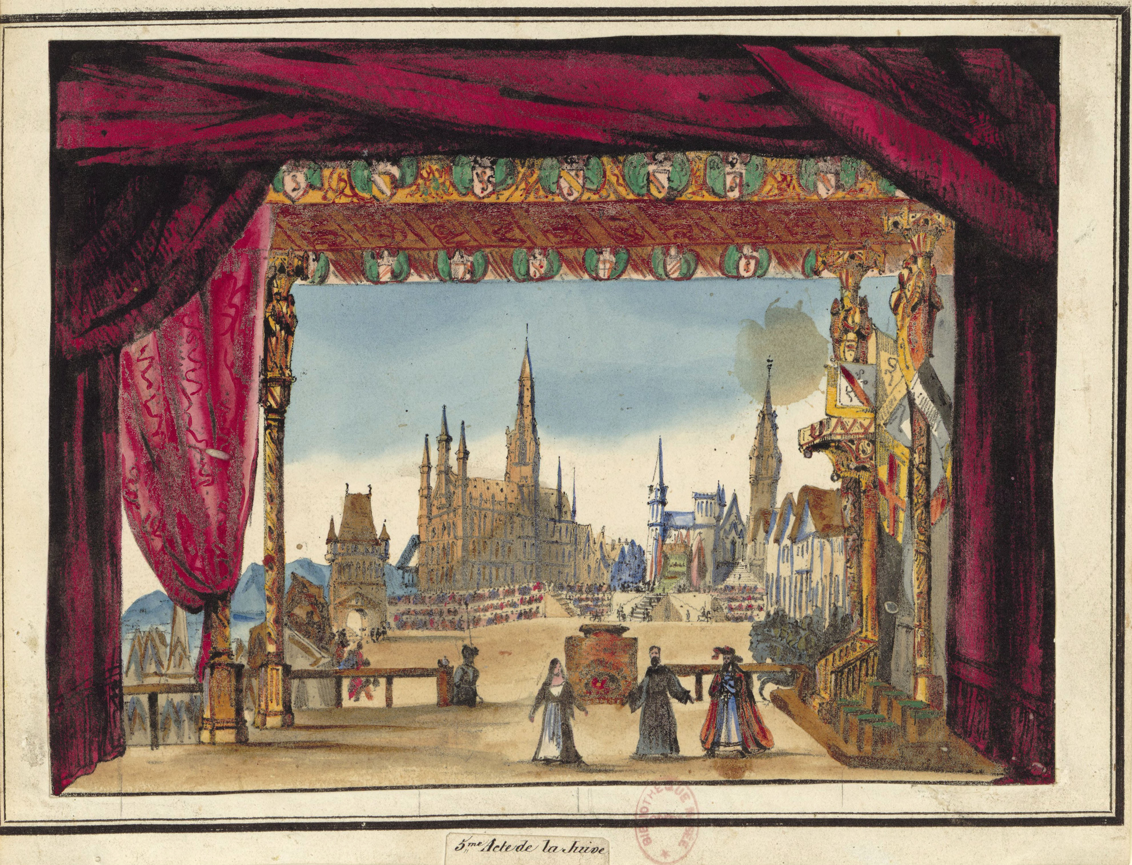 Set design for Act 5 of the opera La Juive by Fromental Halévy, for the original 1835 production at the Paris Opera